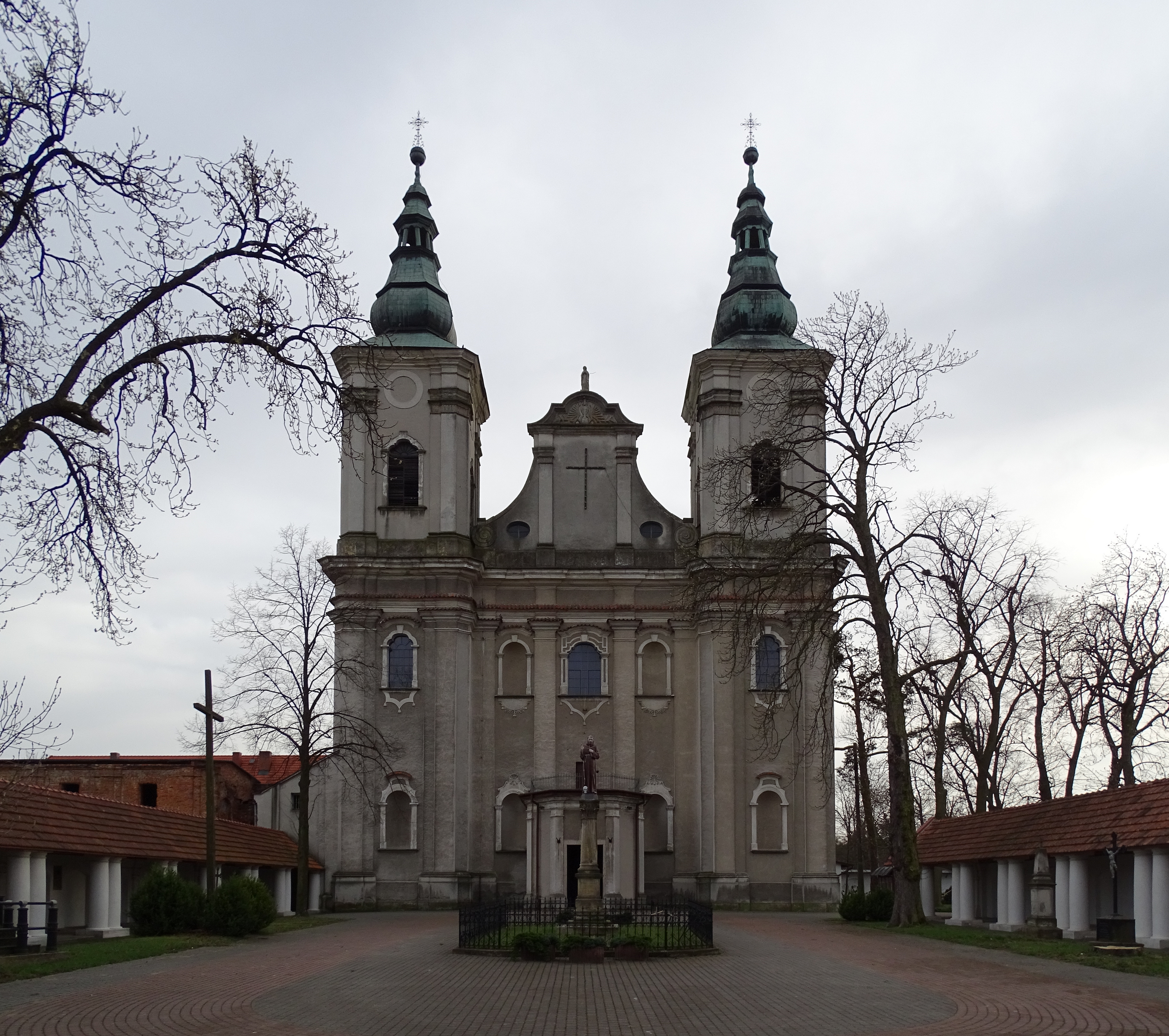 Paradyż, Opoczno County, Poland. Church of the Transfiguration of the Lord. Built in the years 1747–1757.